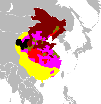 CCP in 1934-1945 CCP's expand in 1945-mid 1946 CCP's expand in mid 1946-mid 1947 CCP's expand in mid 1947-mid 1948 CCP's expand in mid 1948-mid 1949 CCP's final expand in mid 1949-September 1949